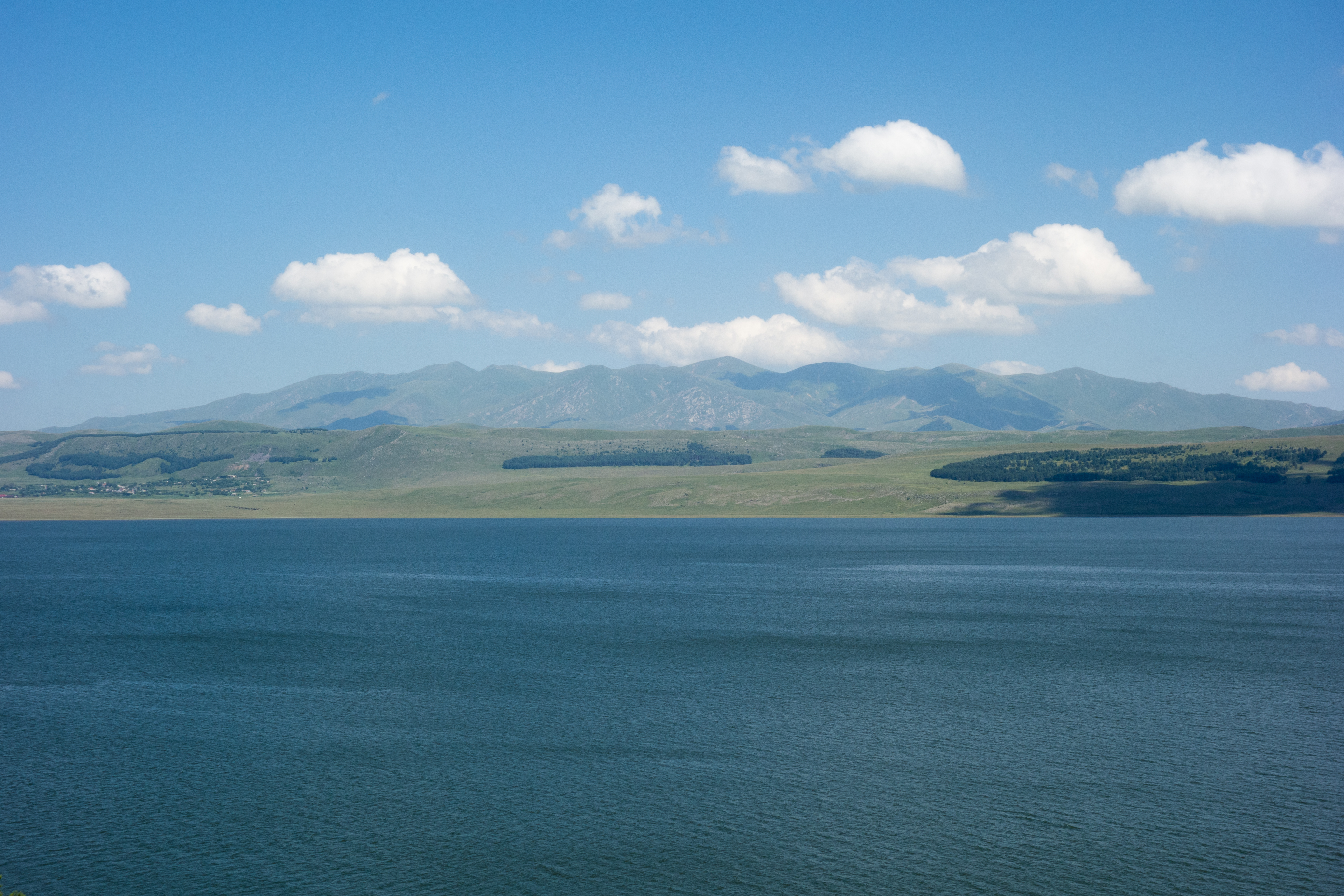 The view of Mount Arjevani from Tsalka Reservoir, Kvemo Kartli, Georgia